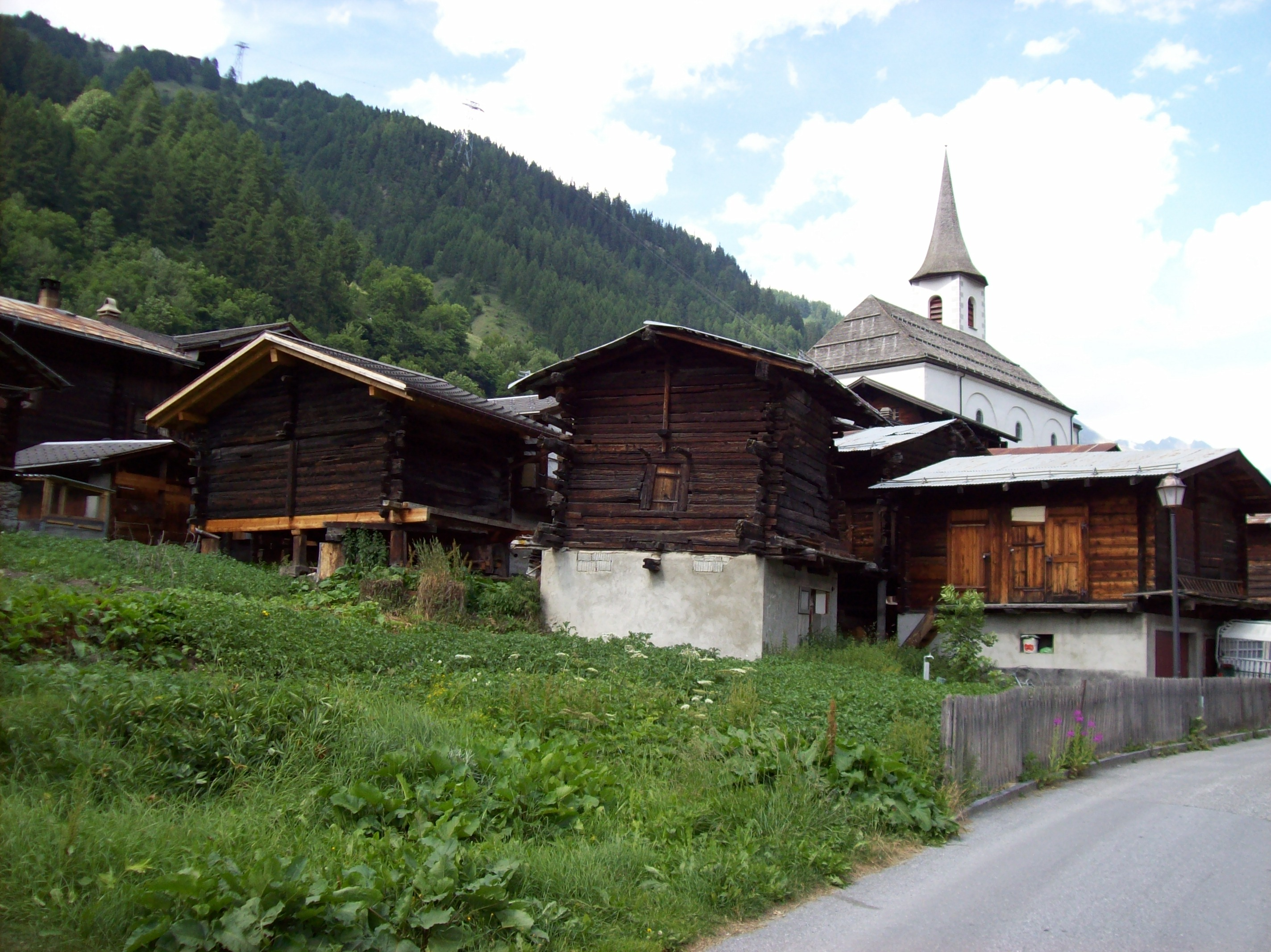 Kippel, Valais, Switzerland